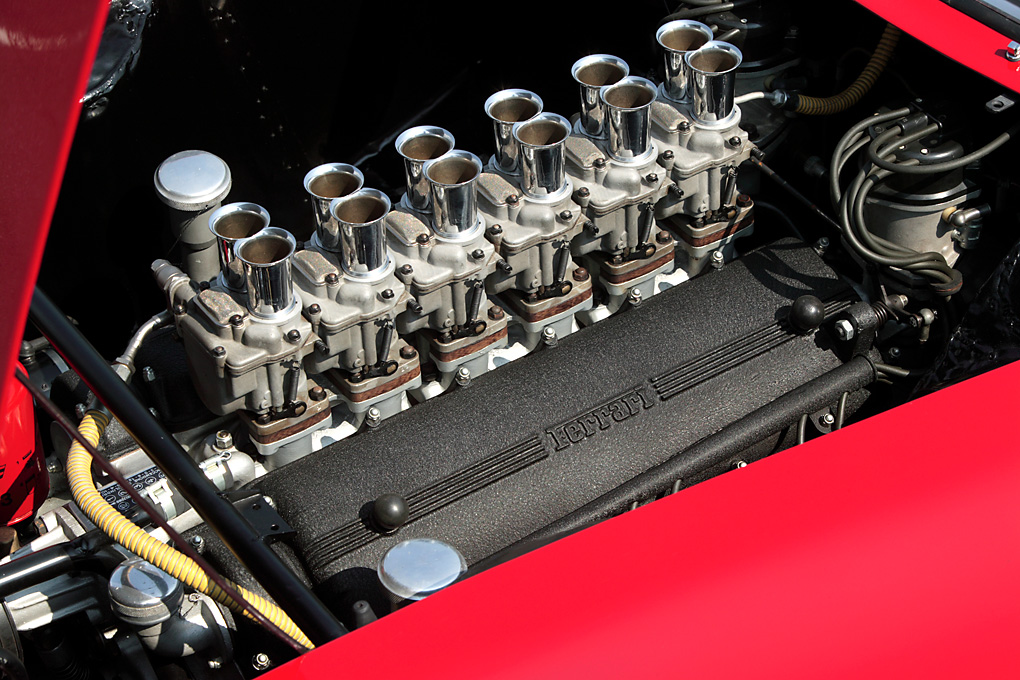 V12 engine of Ferrari 250 GTO 63-64